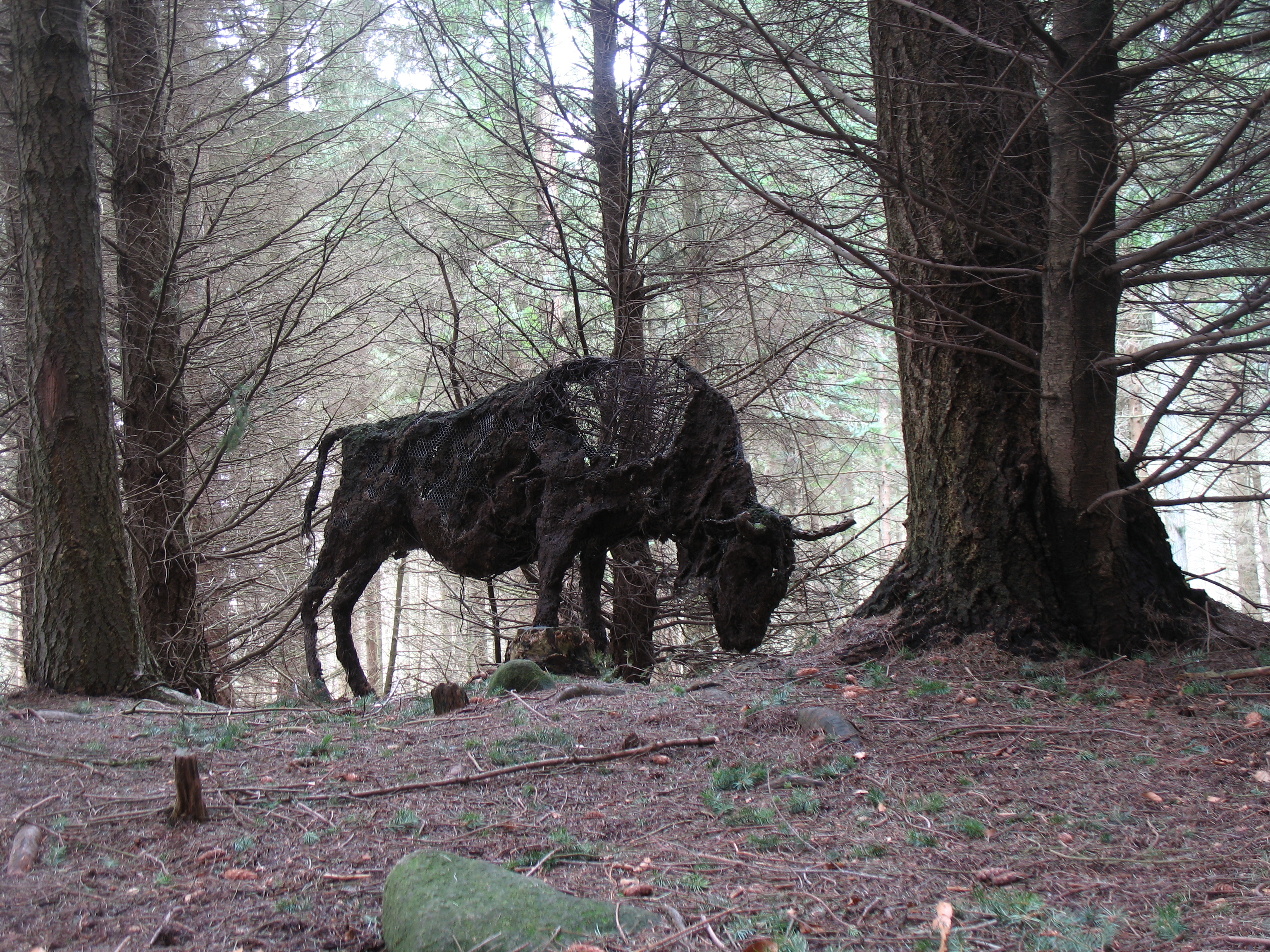 European Bison, by Sally Matthews Text from the sculpture park website... "A small herd of bison can be glimpsed through the trees. The four creatures arranged in different positions have a very naturalistic presence. They are based on close observation of live bison which Sally sketched at the Highland Wildlife Park. She was inspired by their "quiet, enormous presence" and imagined they had once roamed the forest at Tyrebagger. The sculptures were made from welded steel and chicken wire frames and covered in the forest using peat, sheep?s wool and other natural materials such as pine needles bound together with waterproof PVA glue. Her use of these materials gives the bison a shaggy and earthy appearance which helps them to blend with their surroundings. The peat, formed over thousands of years and with its ancient smell, helps to make a link with the past. By using materials that will rot and decay over time, Sally makes a link with natural processes and cycles. Everywhere in the forest, particularly underfoot, the process of decomposition sustains new growth above This area of the forest, dark, secretive and wild, inspired the artist to think of prehistoric Scotland, when much of the land was covered with forest. At this time, Scotland was home to many creatures no longer at large, e.g. bear, elk, boar, lynx, wolf and beaver. Situated on a slightly downwards sloping track, the bison appear silhouetted against a lighter backdrop which adds drama to the encounter."